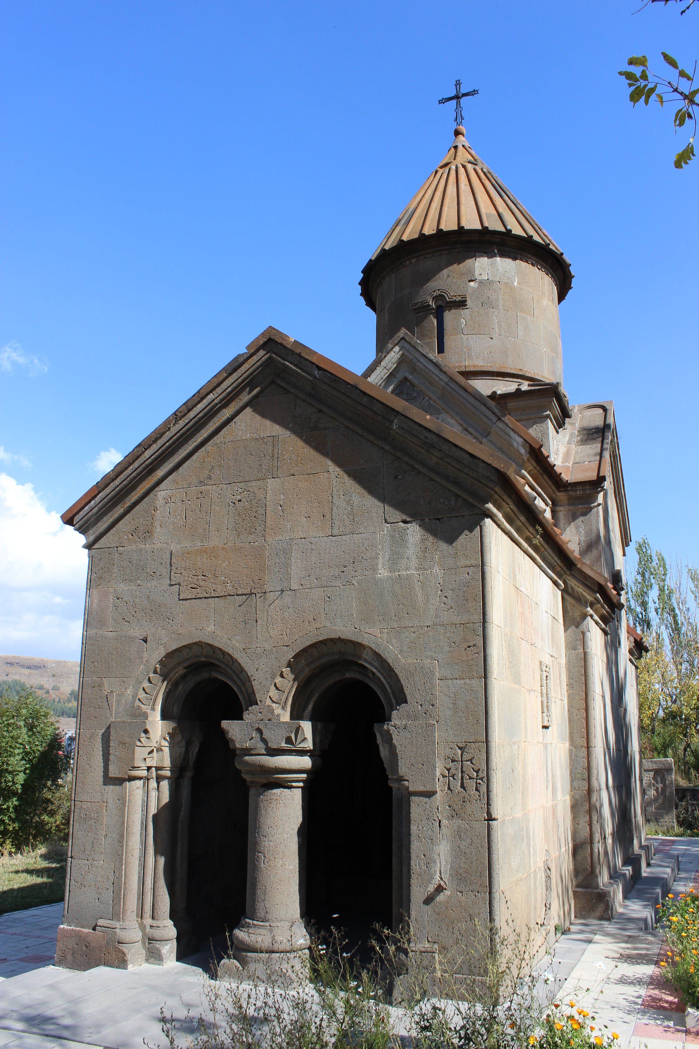 S. Harutyun Church (Holy Resurrection) (c. 1220) just outside the walls of Kecharis Monastery in Tsakhkadzor, Kotayk Province, Armenia.